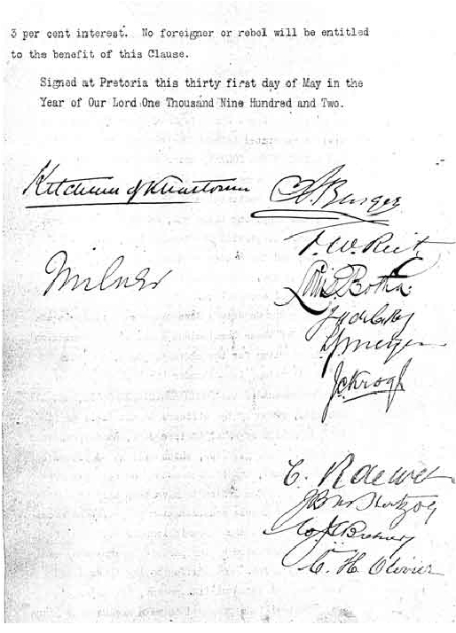 The fourth and final page of the original Peace Treaty of Vereeniging, signed on 31 May 1902, at Melrose House, Pretoria.